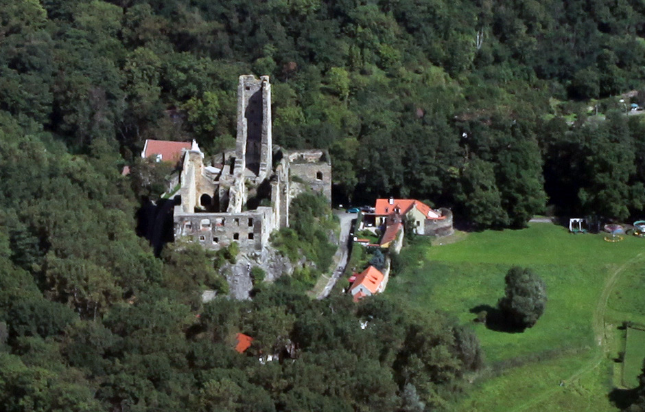 castle Okor, Czech Republic